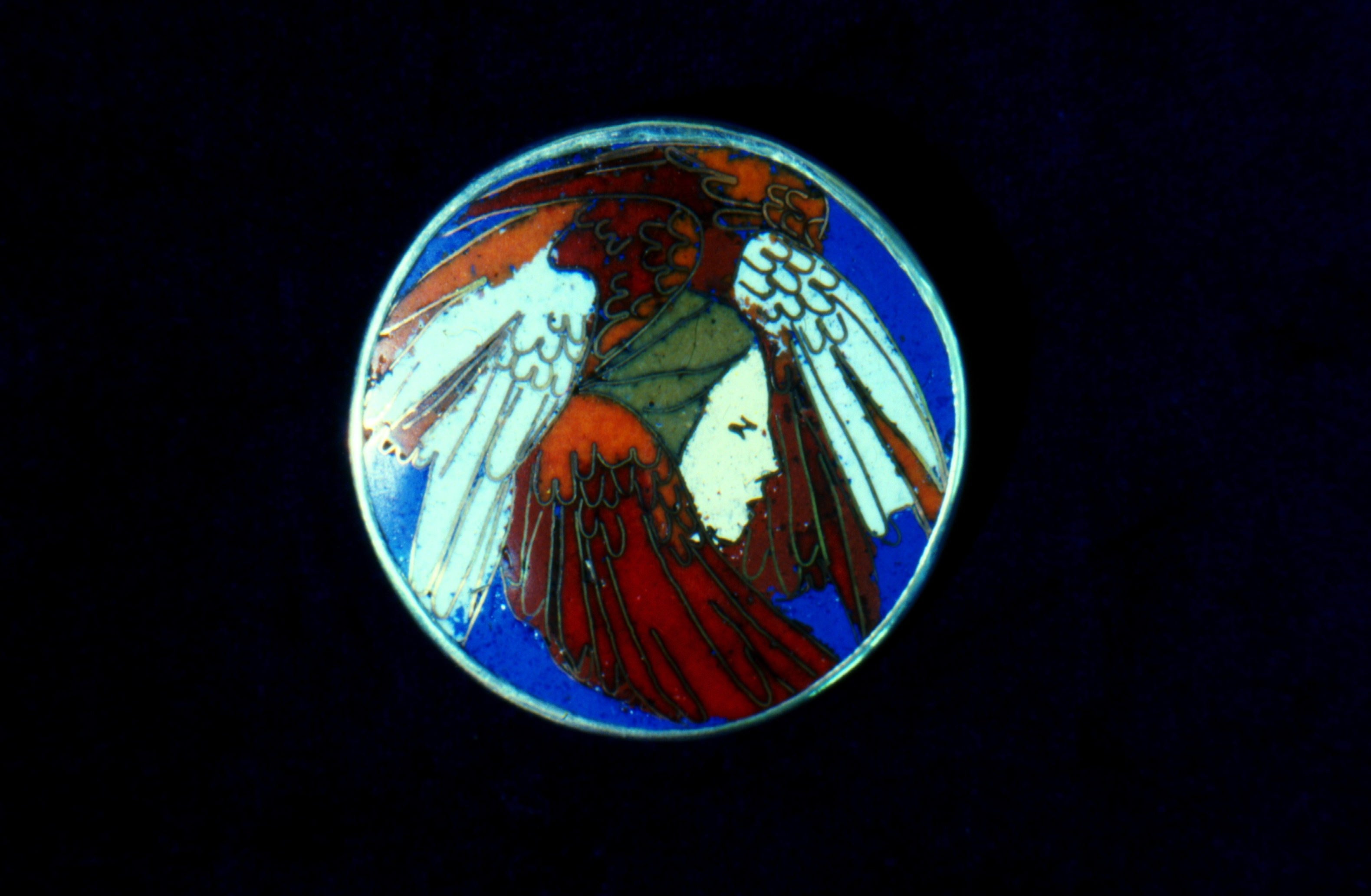 This Cloisonne enamel roundel features the motif of an angel.The enamelling was put onto copper and set as a brooch on a silver back.The design is in the manner of Harold & Phoebe Stabler who had experience as jewellery and ceramic designers when they married in 1912.Harolds's background was mainly metalwork and cloisonne work and Phoebe was an established ceramic figure modeller before marriage as Phoebe McCleish. Possibly made circa 1900-1920. Inventory number HARGM 834 44mm in diameter Scan of a transparency slide and the image was done circa 1985-1995.